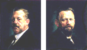 KUKA Founder Johann Josef Keller *3.2.1870 + Jakob Knappich *21.5.1866